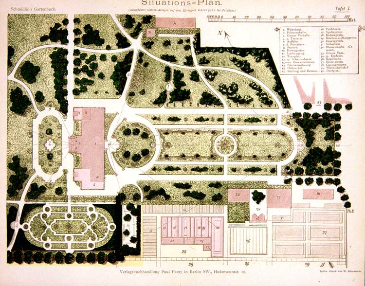 Plan from the estate Gütergotz [Güterfelde] near Potsdam, Germany